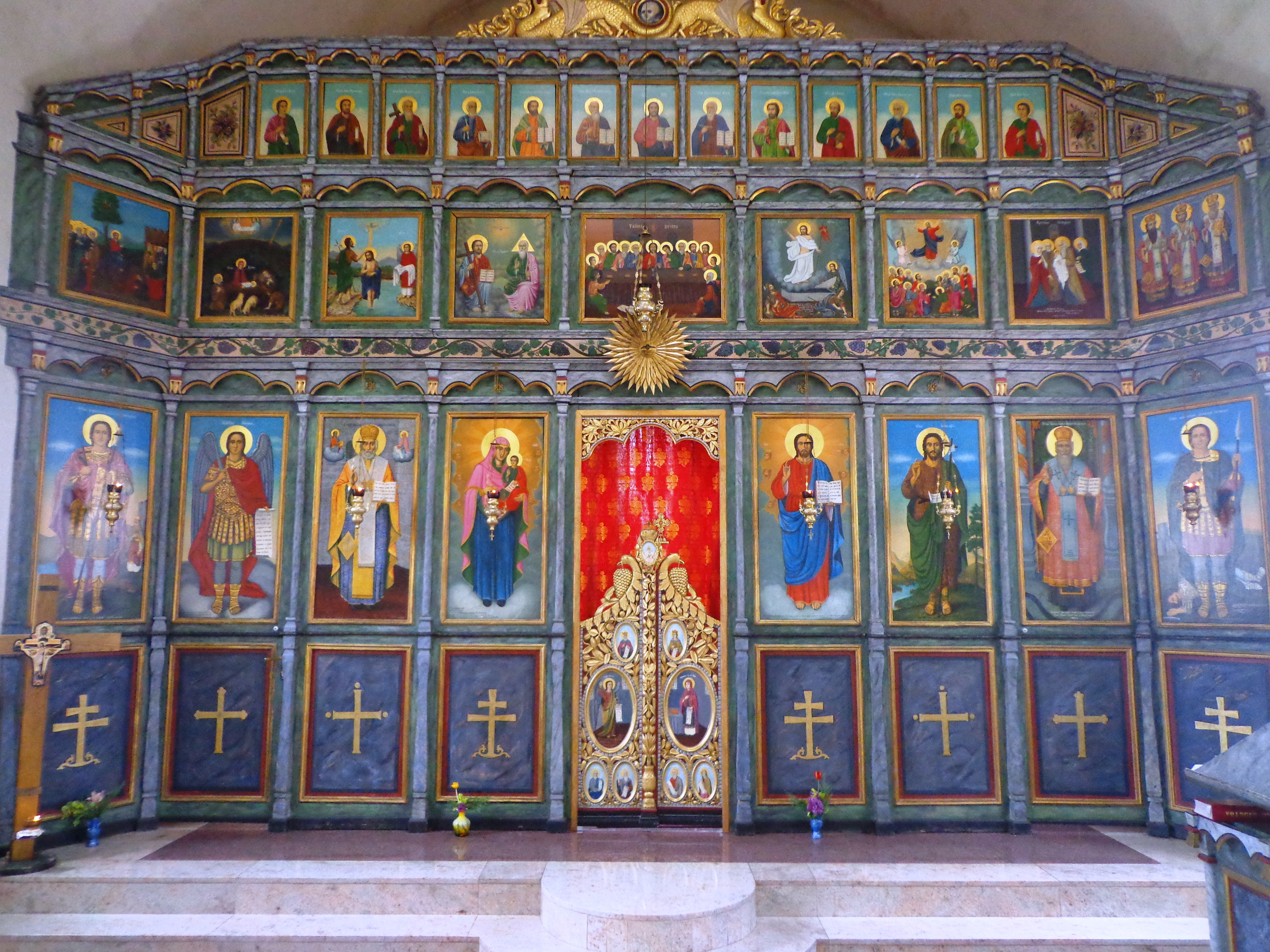 Ikonostas crkve